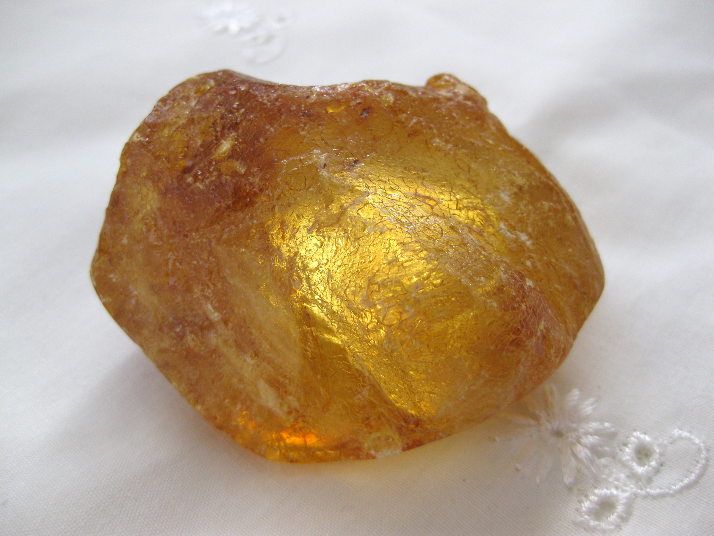 "Kauri gum" of Agathis australis, bought from Kauri Museum, New Zealand.